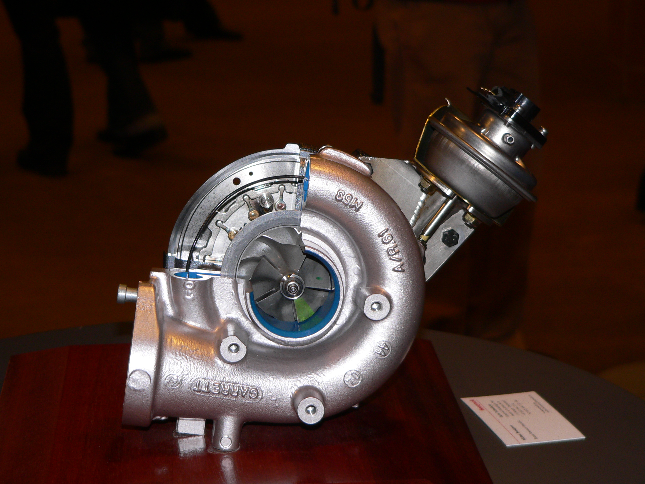 Model of a turbo. The interior is visible.